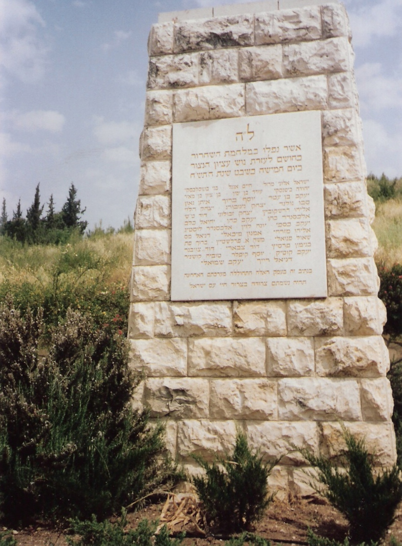 memorial to 35 israeli soldiers who fell in 1948